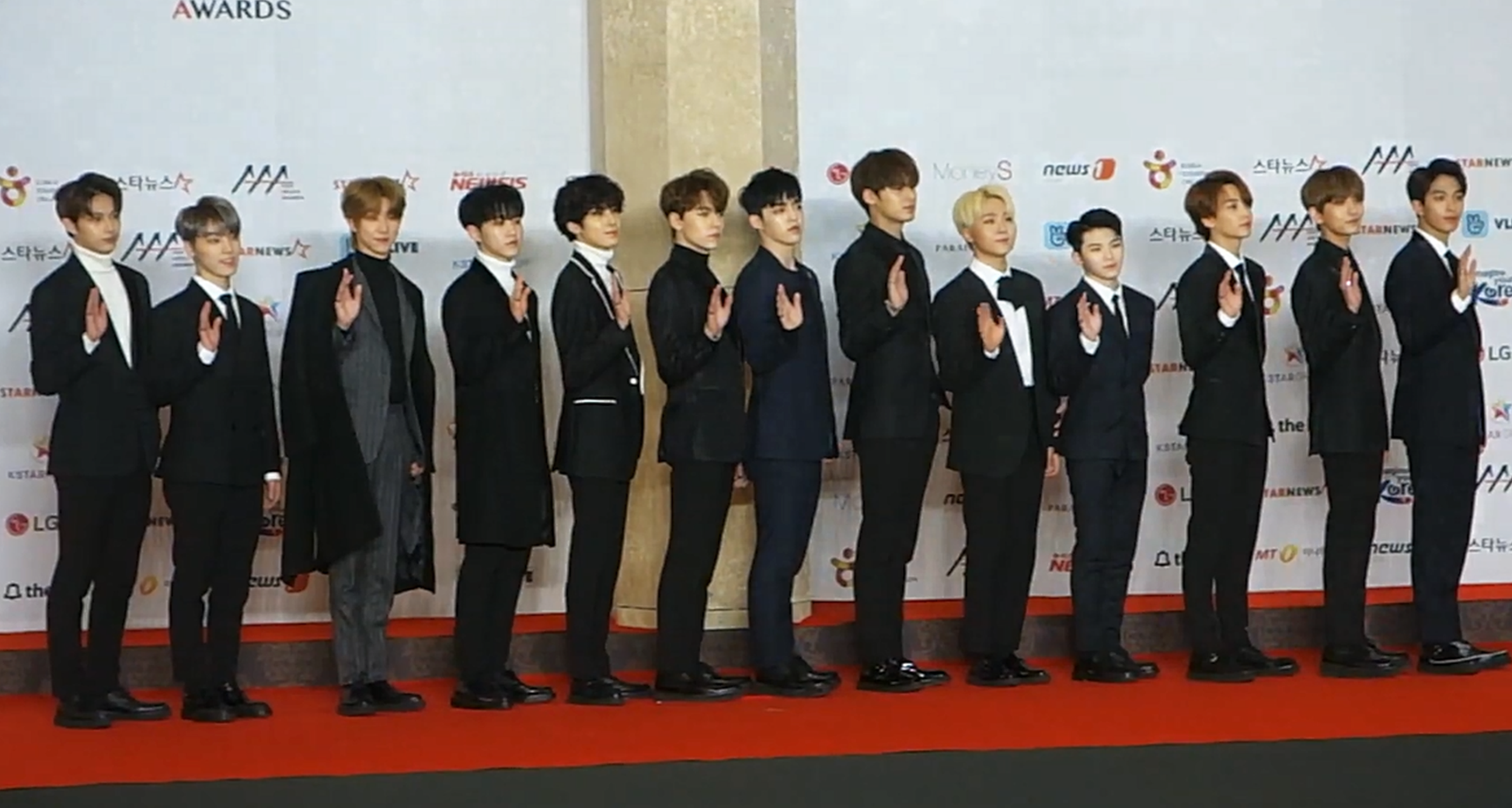 Seventeen on the red carpet of the Asia Artist Awards on November 28, 2018.